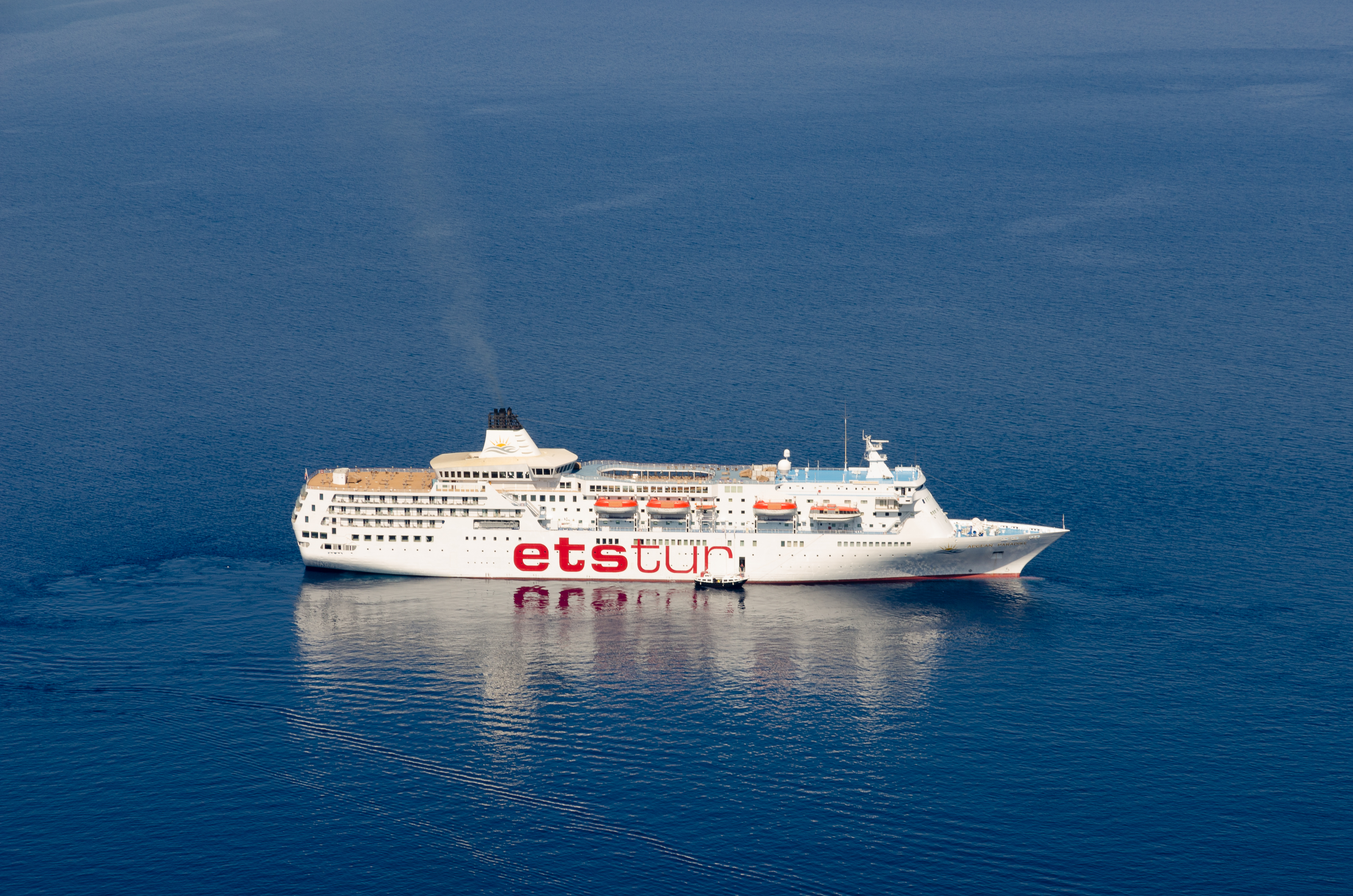 Aegean Paradise, Estur cruise ship in the caldera of Santorini, Greece.